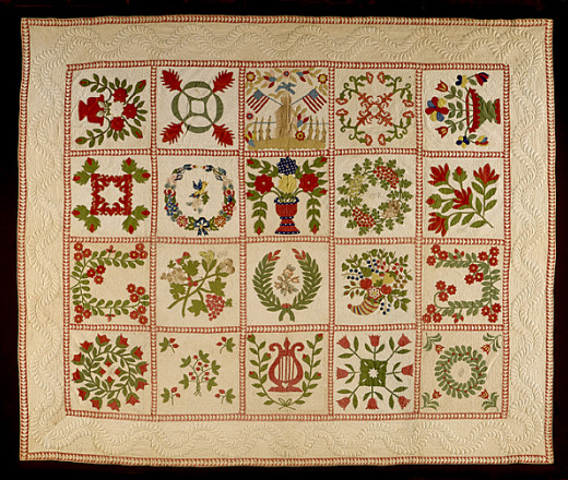 United States, circa 1848 Textiles; quilts Appliquéd and embroidered cotton with ink 82 x 108 in. (208.28 x 274.32 cm) Costume Council Fund (AC1992.65.1) Costume and Textiles